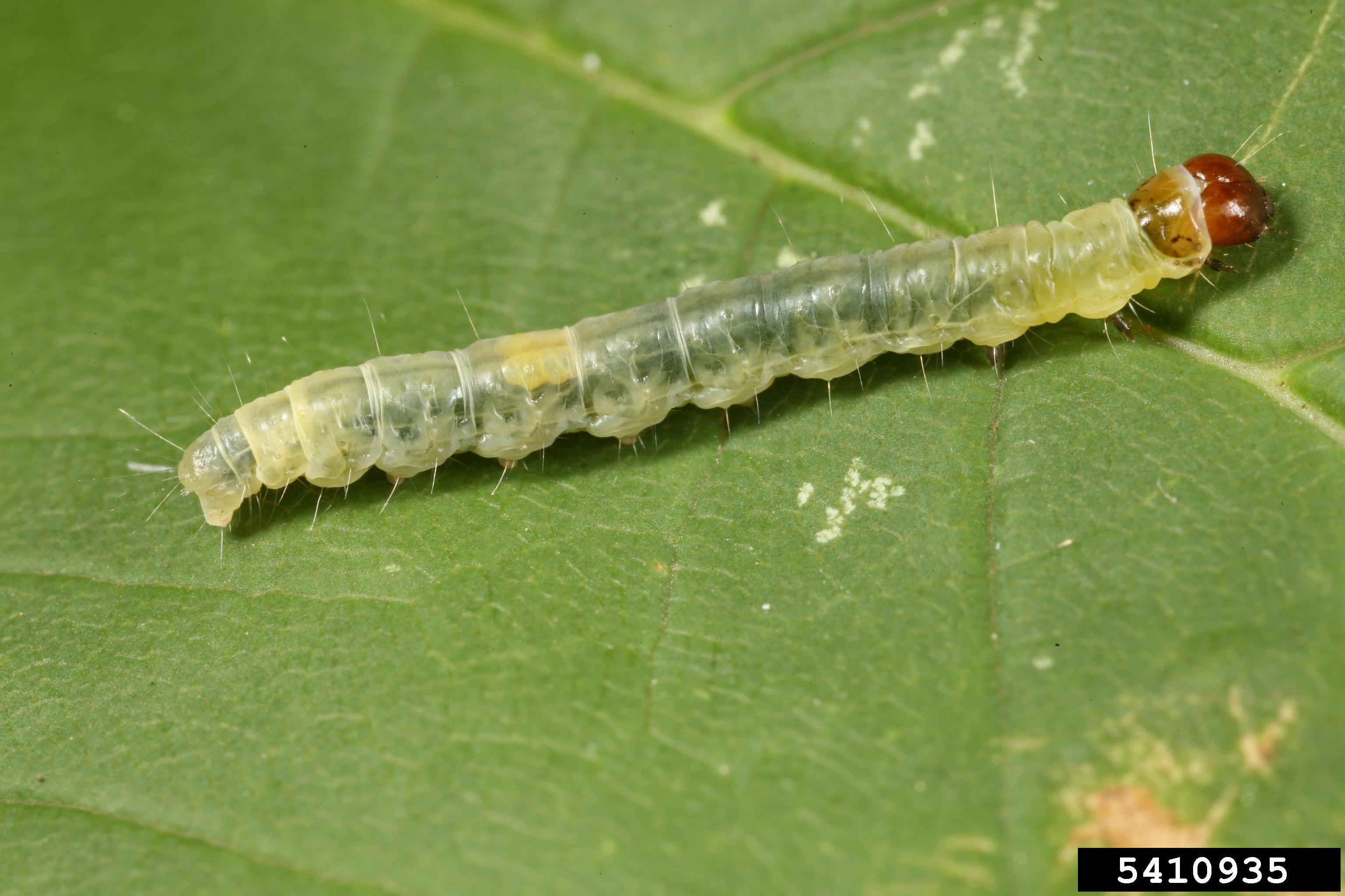 rose Tortrix moth - Archips rosana (Linnaeus) Host: oak (Quercus spp. L.) Descriptor: Larva(e) Image location: United States Image type: Field